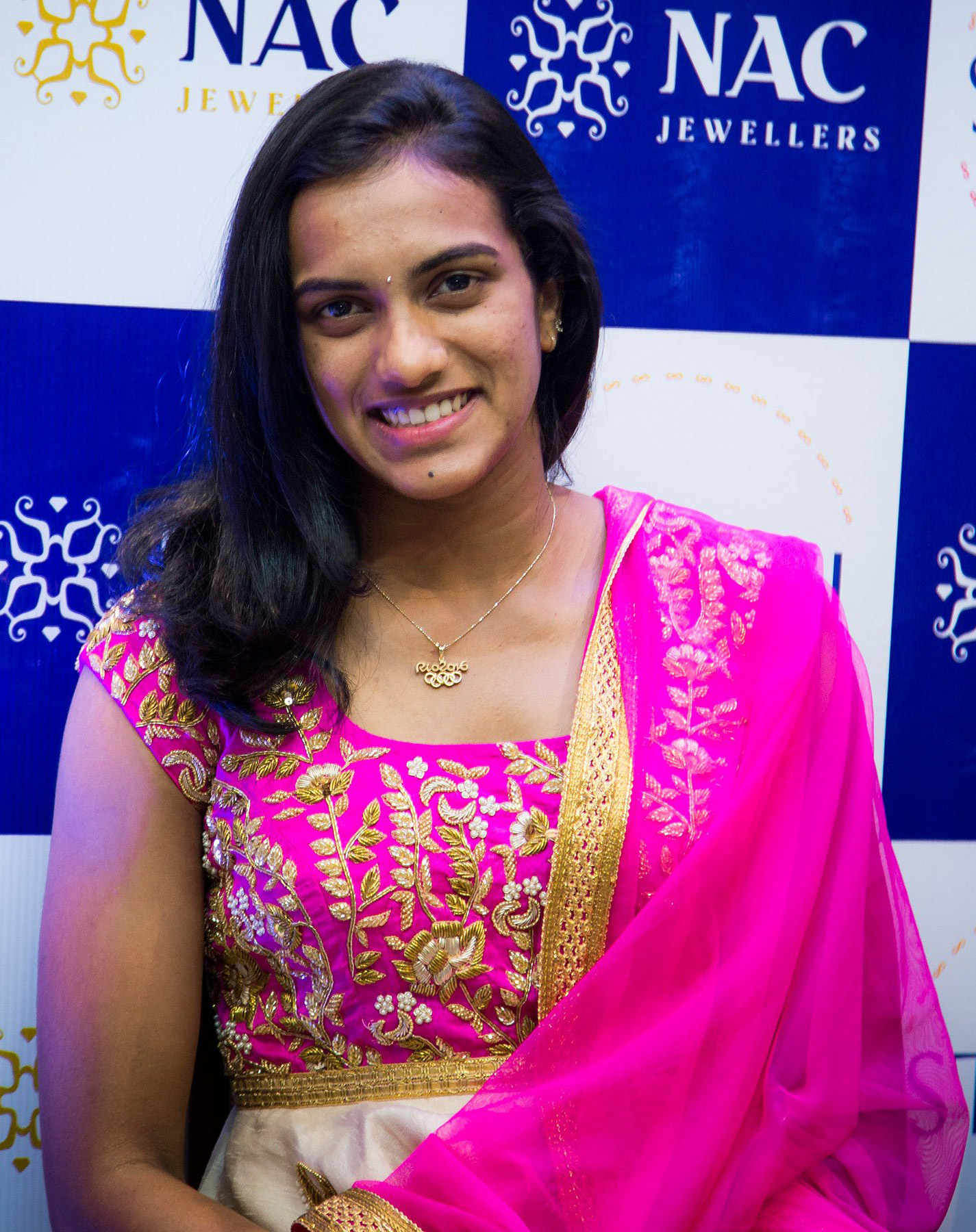 NAC Jewellers Honors Olympic Silver Medalist PV Sindhu